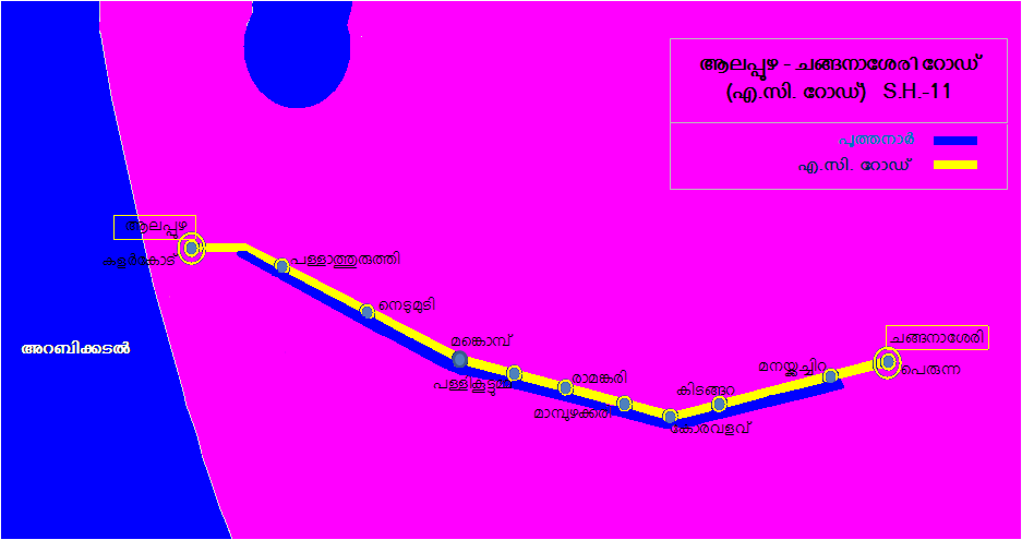 AC Road (Alleppey - Changanassery Road)